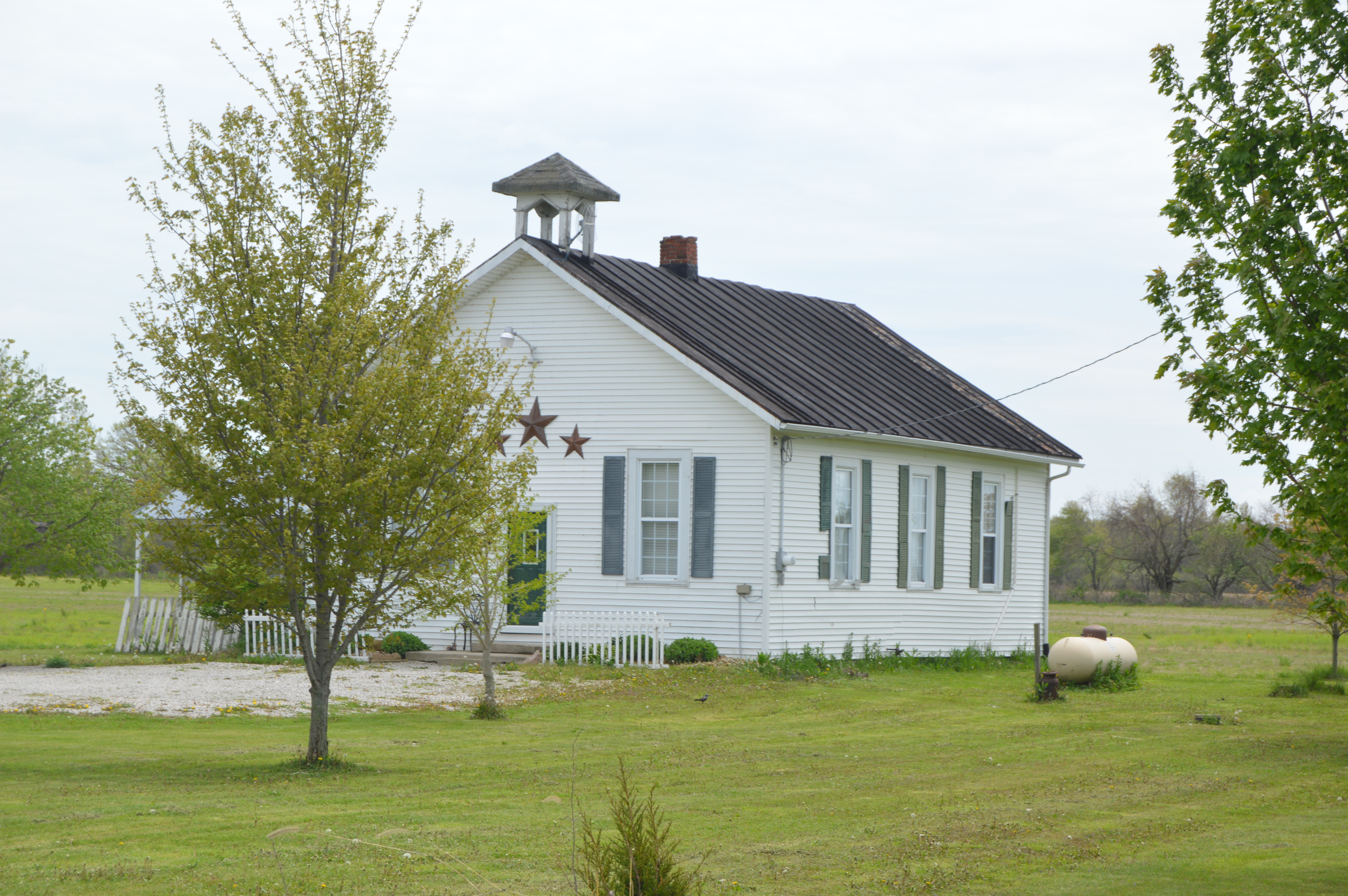 A former schoolhouse and current photography business located at 4505 North Greenfield Road at Havana in Norwich Township, Huron County, Ohio, United States. It was built in 1850.